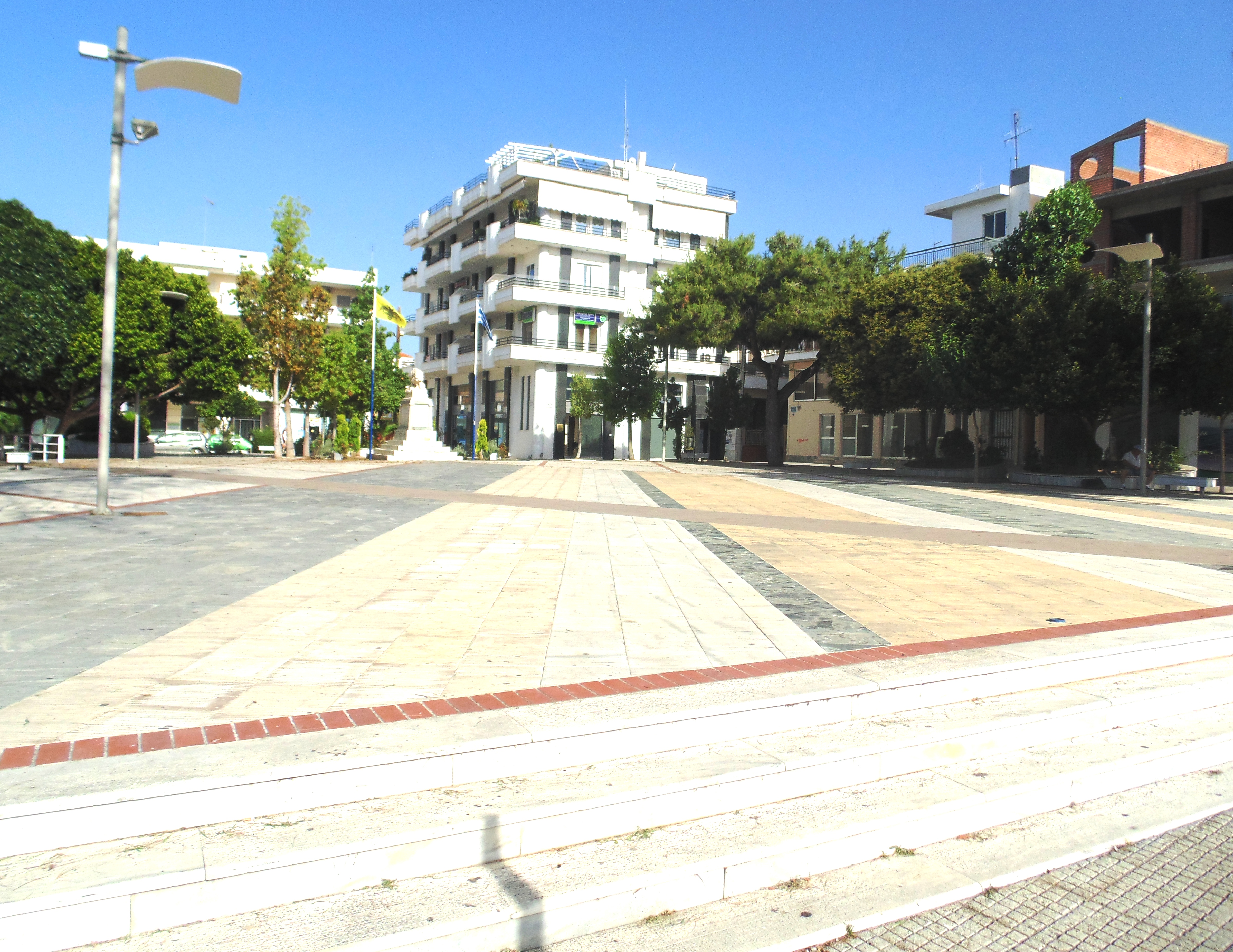 Square of Heroes (ancient agora)